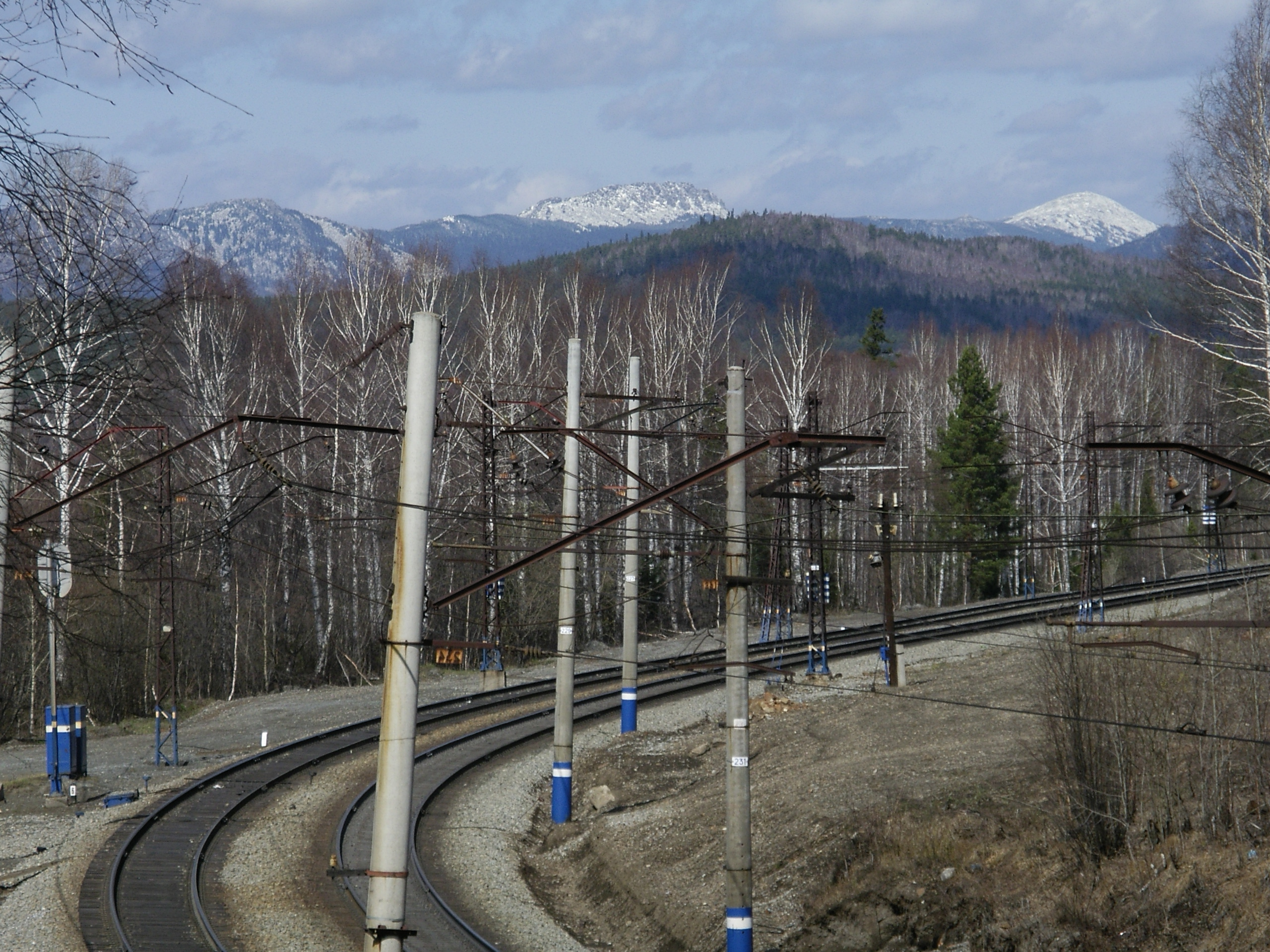 View of Taganai from Zlatoust